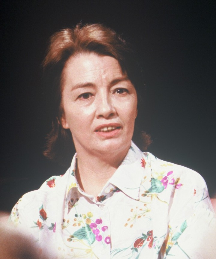 Christine Keeler appearing on television programme After Dark on 4 June 1988, (c) Open Media Ltd 1988